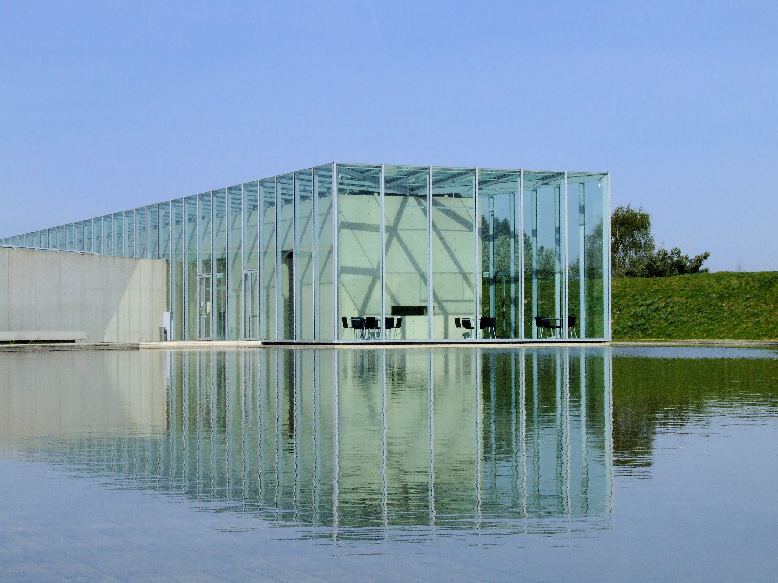 Langen Foundation Native nameLangen FoundationLocationNeuss, GermanyCoordinates51° 09′ 09″ N, 6° 38′ 41″ E Established2004Website control : Q830675 VIAF: 130400362 SUDOC: 128703709 Hombroich. Langen Foundation.